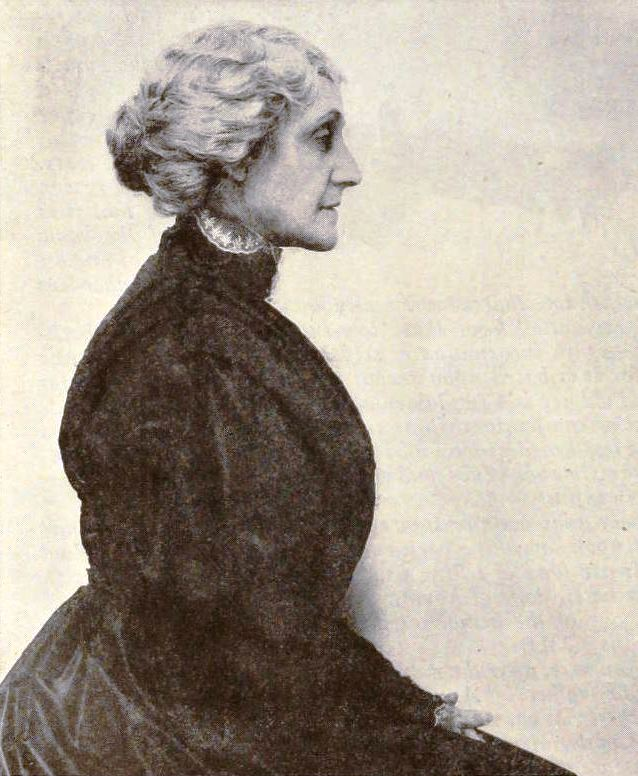 Actress Kate Bruce on page 20 of the December 1921 Photoplay.